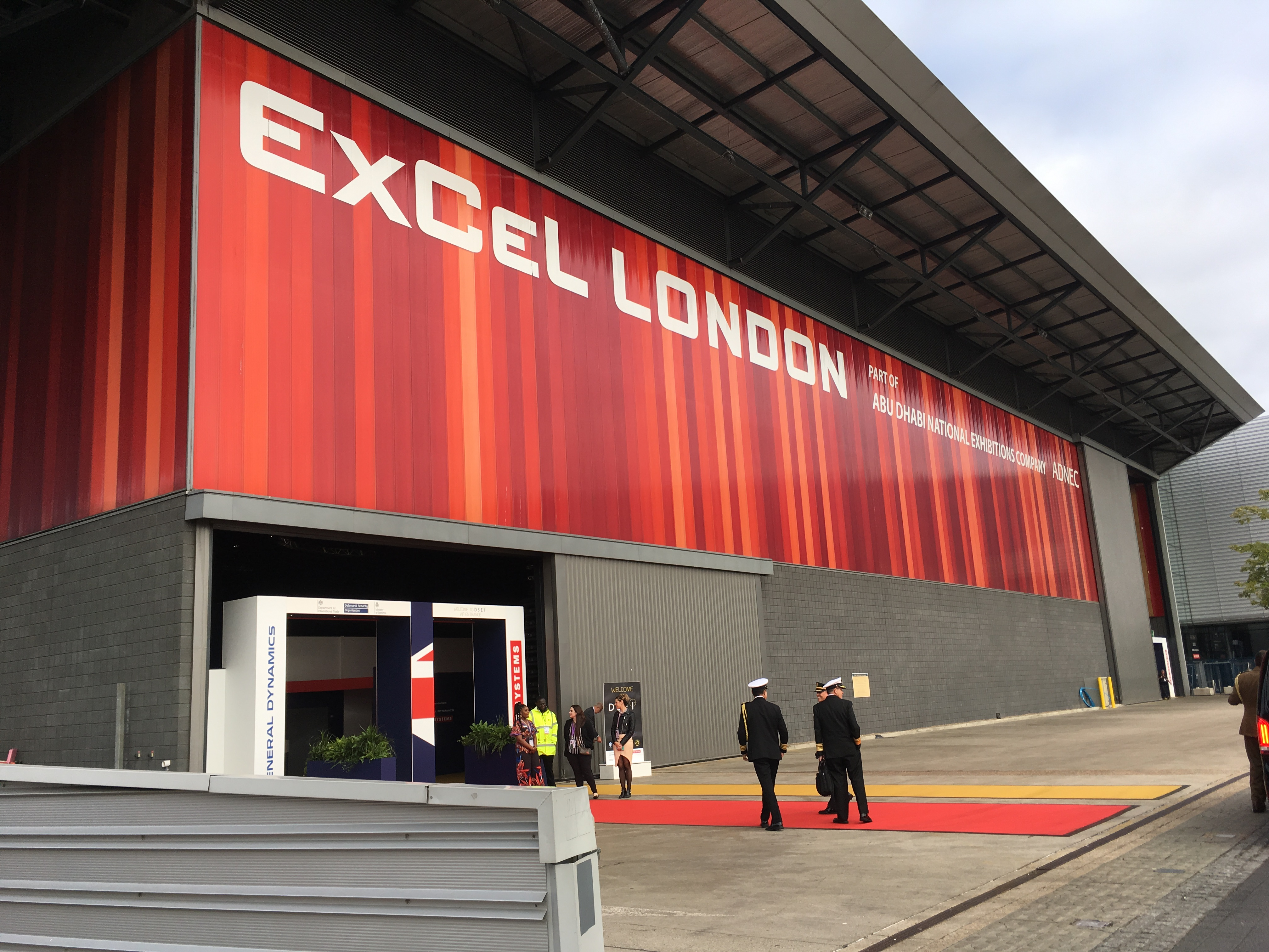 The VIP entrance of ExCeL London, near by East Entrance. DSEI 2019